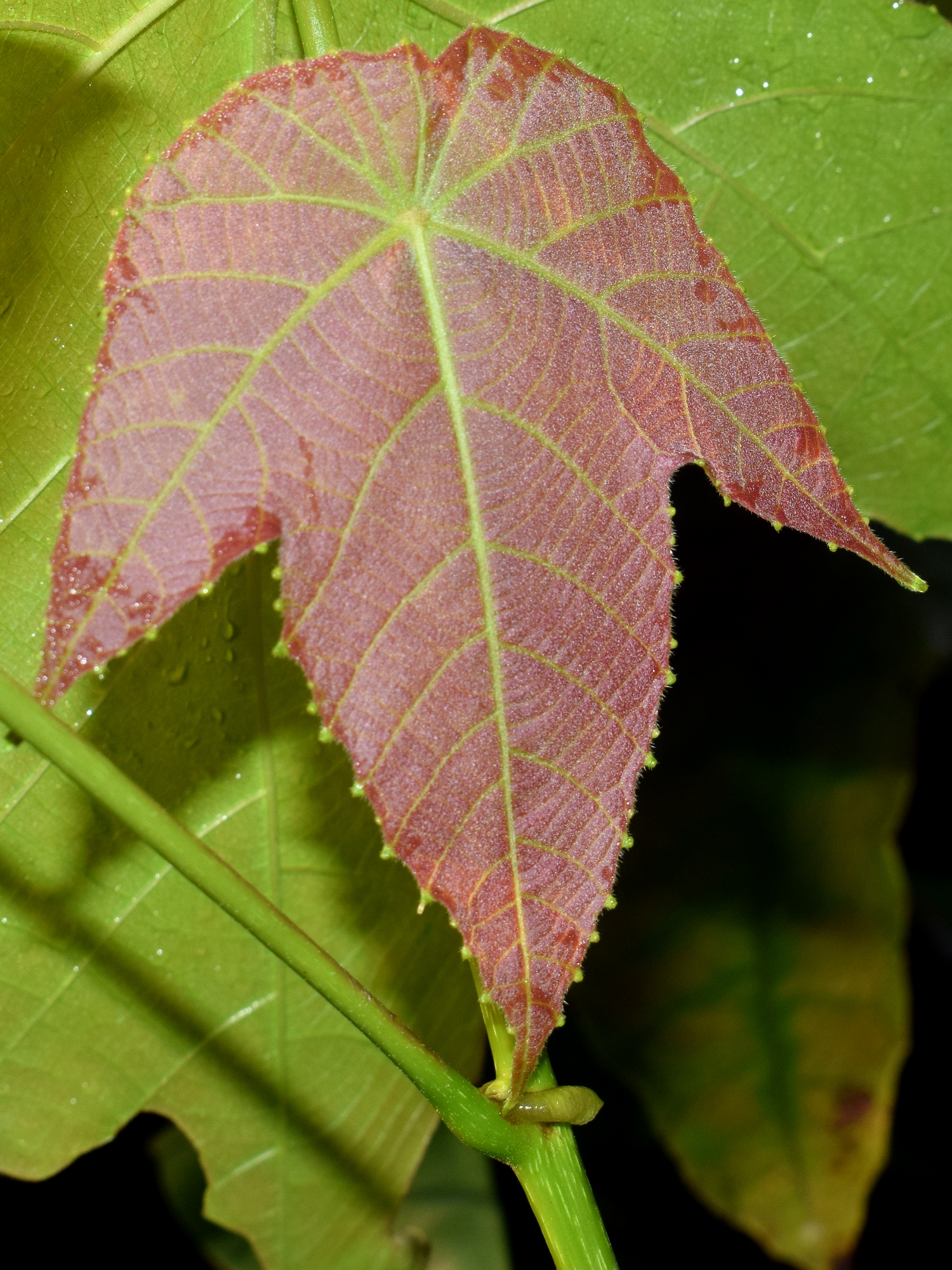 Macaranga triloba; reddish young leaf. From Bogor, West Java, Indonesia.